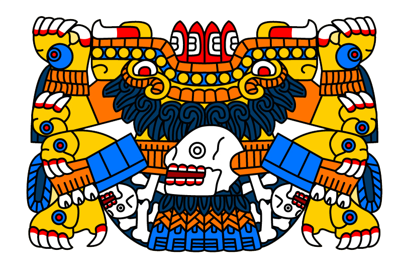 Tlalcihuatl